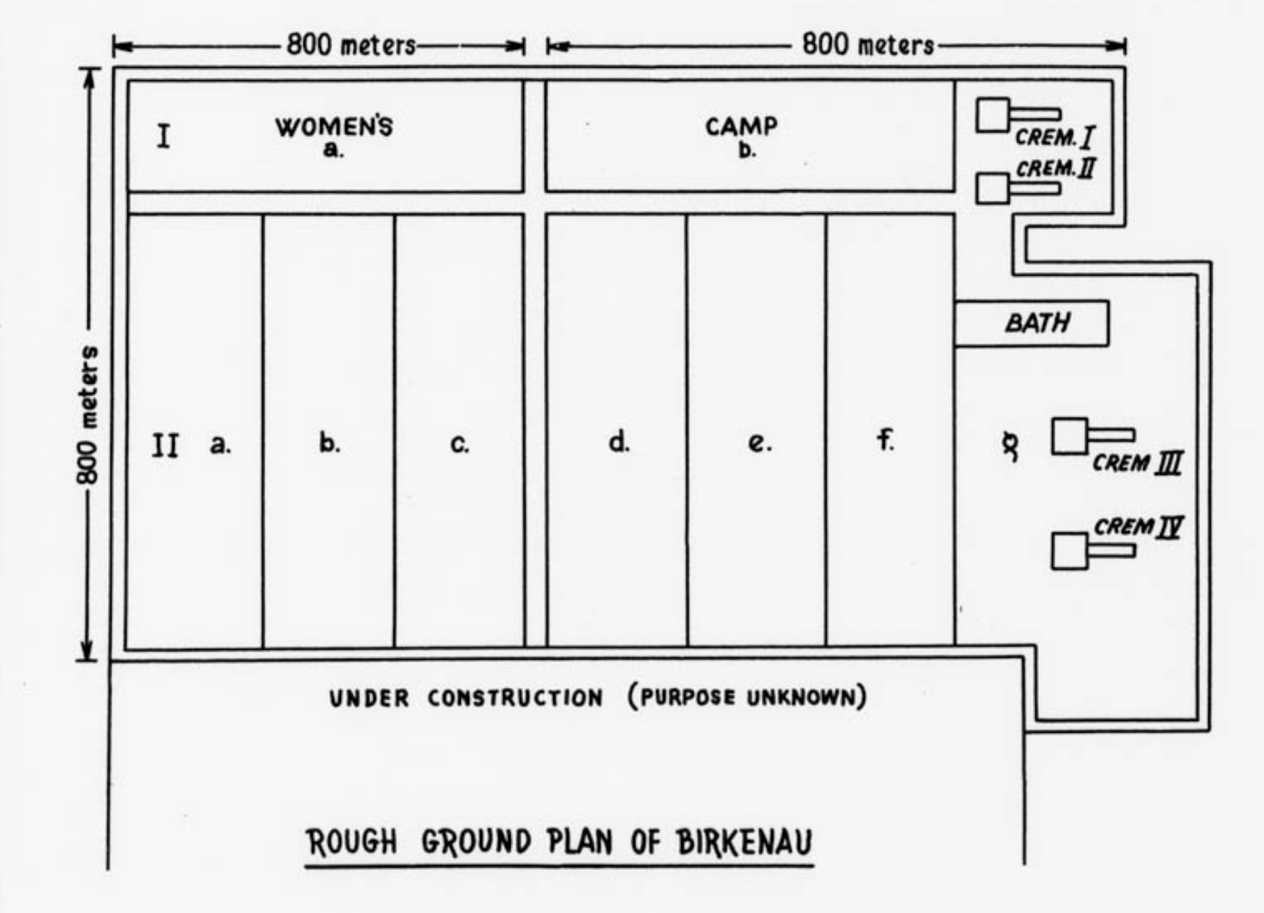 Rough ground plan of Auschwitz II-Birkenau in German-occupied Poland, April 1944